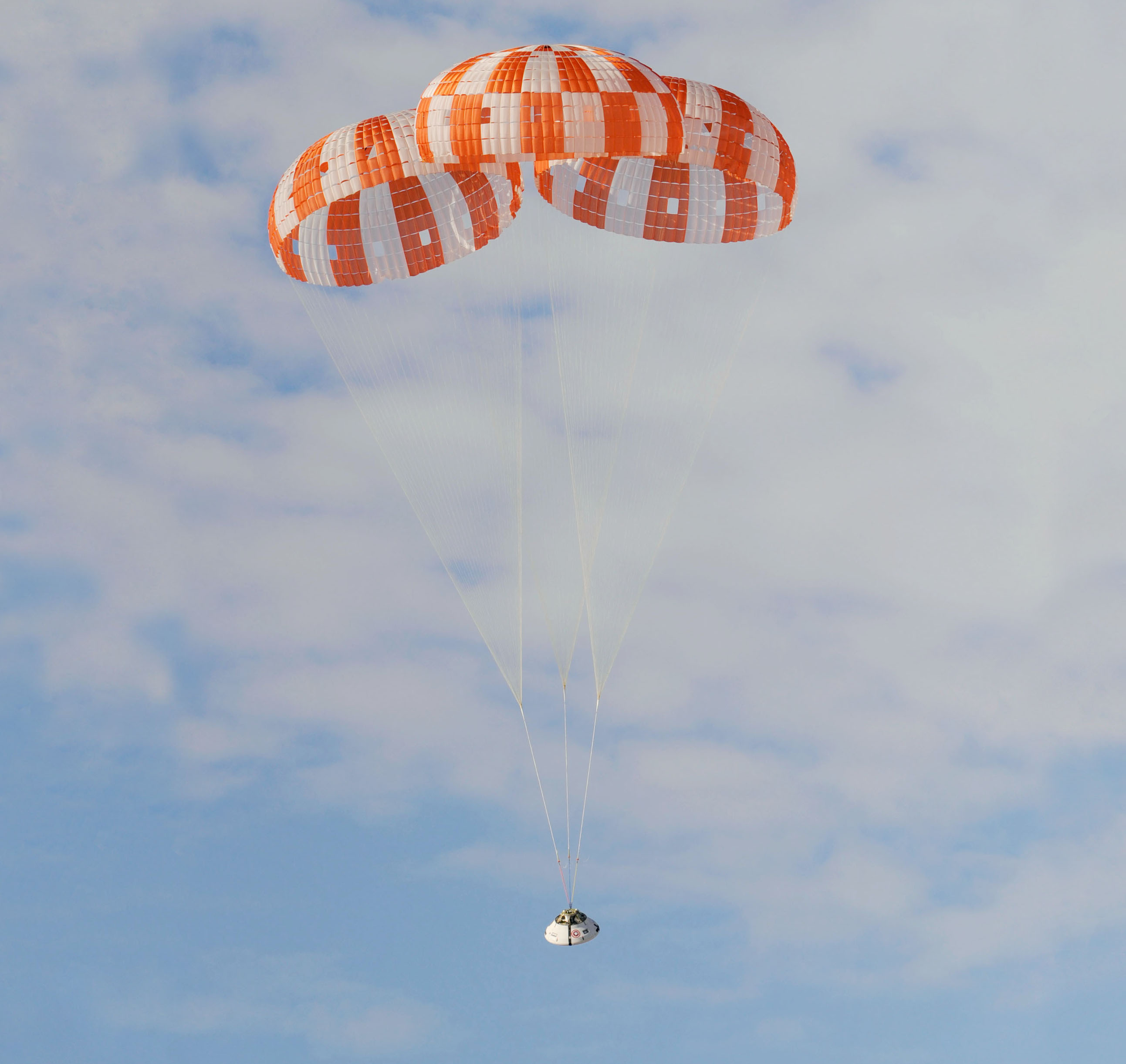 JSC2012-E-103259 (18 July 2012) --- A C-17 plane dropped a test version of Orion from an altitude of 25,000 feet above the U.S. Army Yuma Proving Ground in southwestern Arizona. This test was the second to use an Orion craft that mimics the full size and shape of the spacecraft. The main objective of the latest drop test was to determine how the entire system would respond if one of the three main parachutes inflated too quickly.